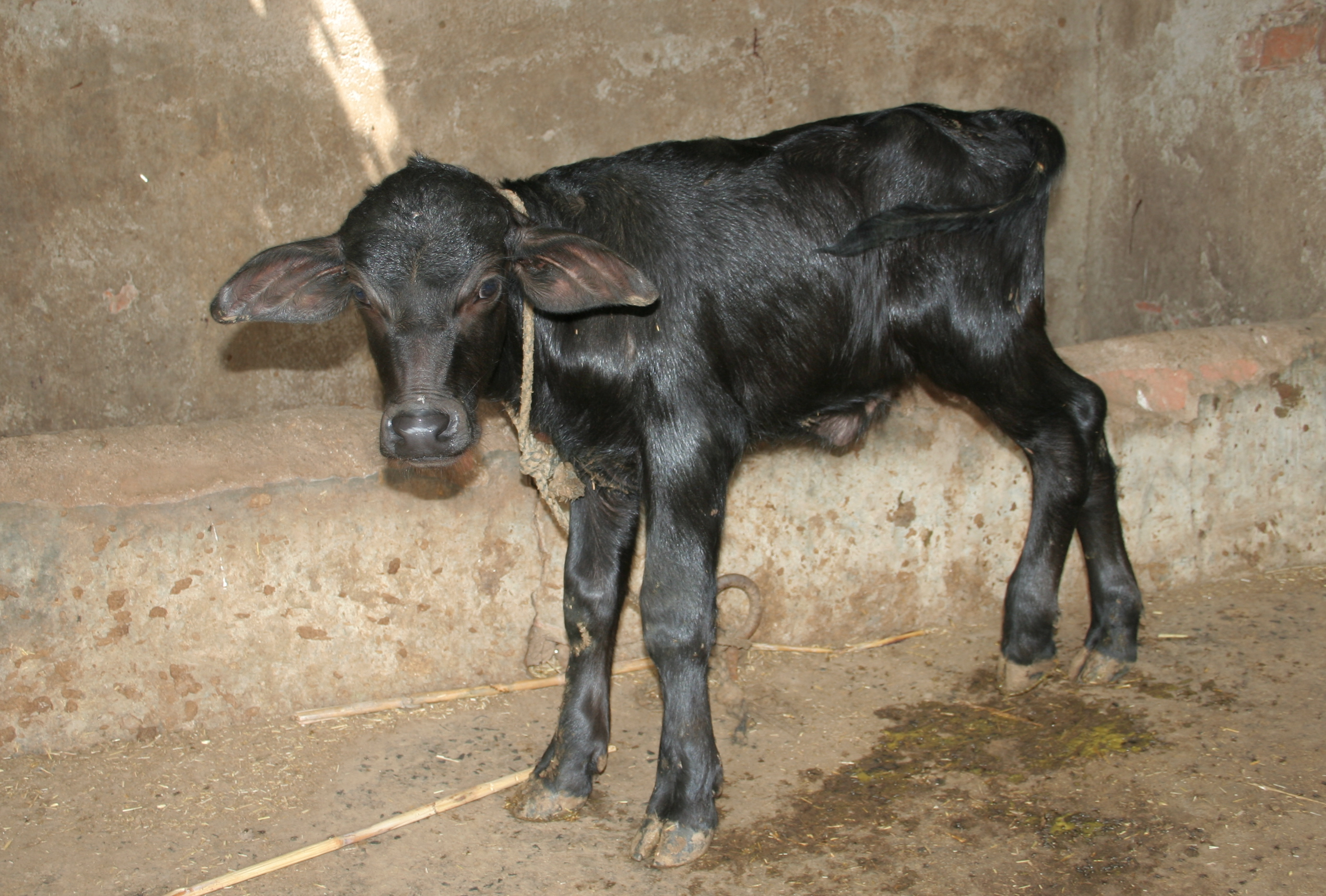 Water buffalo calf (Bubalus bubalis), near Mehsana, Gujarat, India.